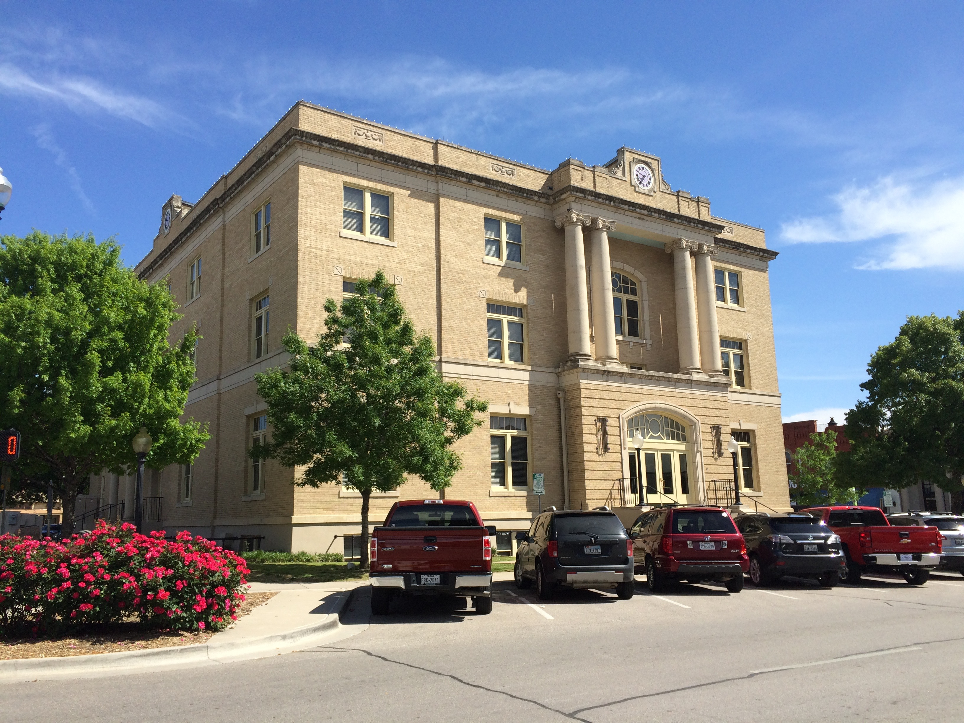 Historic Collin County, Texas courthouse in the courthouse square in McKinney, Texas, 2016.